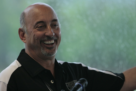 Bobby Rahal at the Barber Motorsports Park Legends of Motorsport historic racing event in 2010.